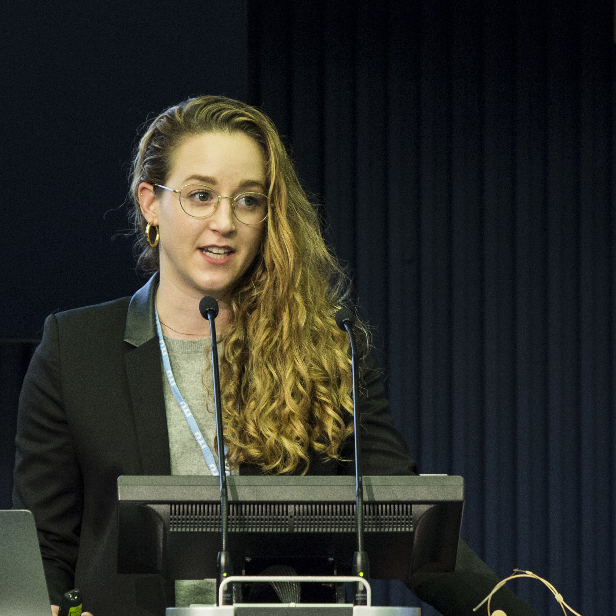 Terah Lyons, Executive Director, Partnership on AI speaking at the AI for Good Global Summit 2018 15-17 May 2018, Geneva ©ITU/D.Procofieff ITU (International Telecommunication Union)